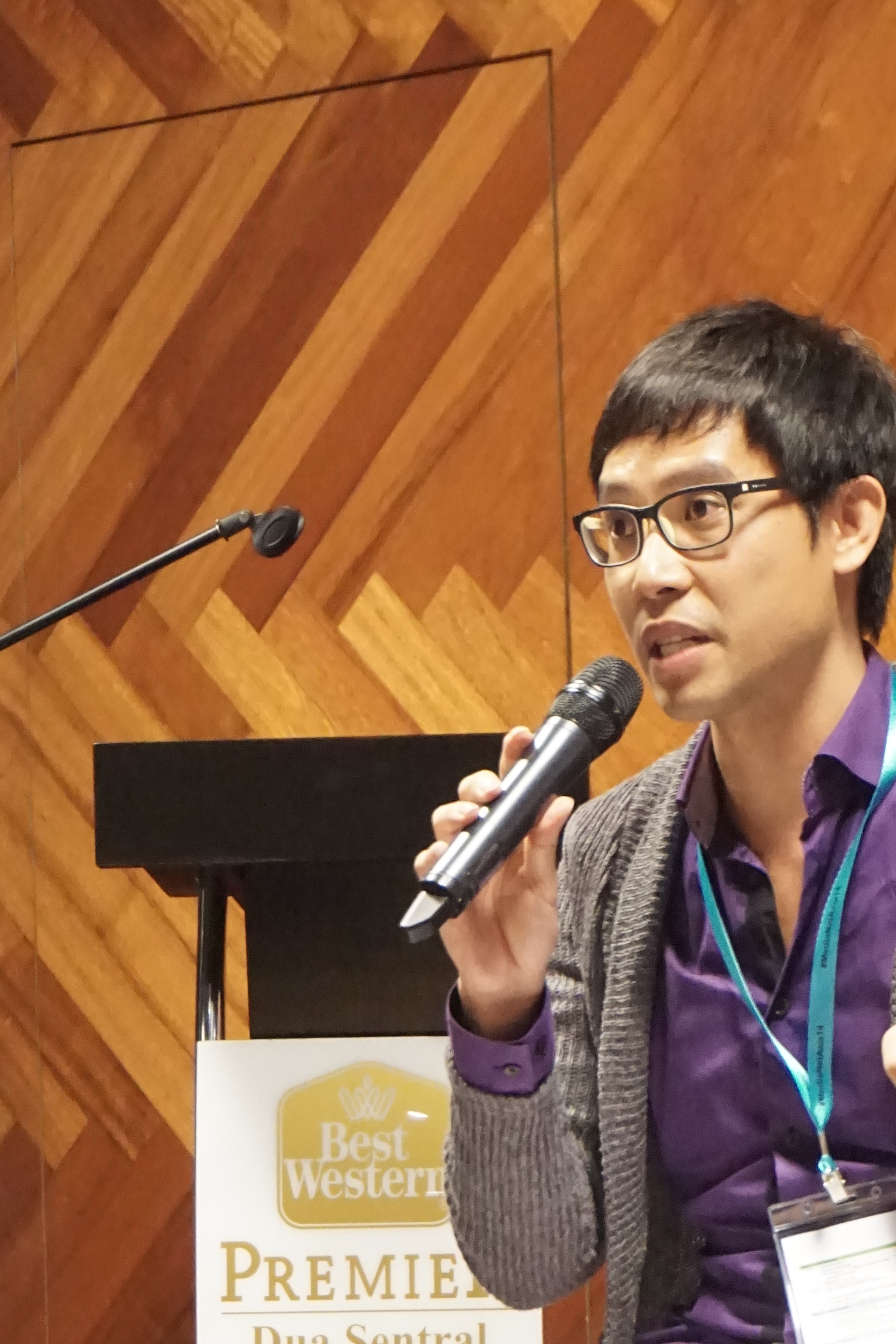 Singaporean activist and blogger Roy Ngerng.